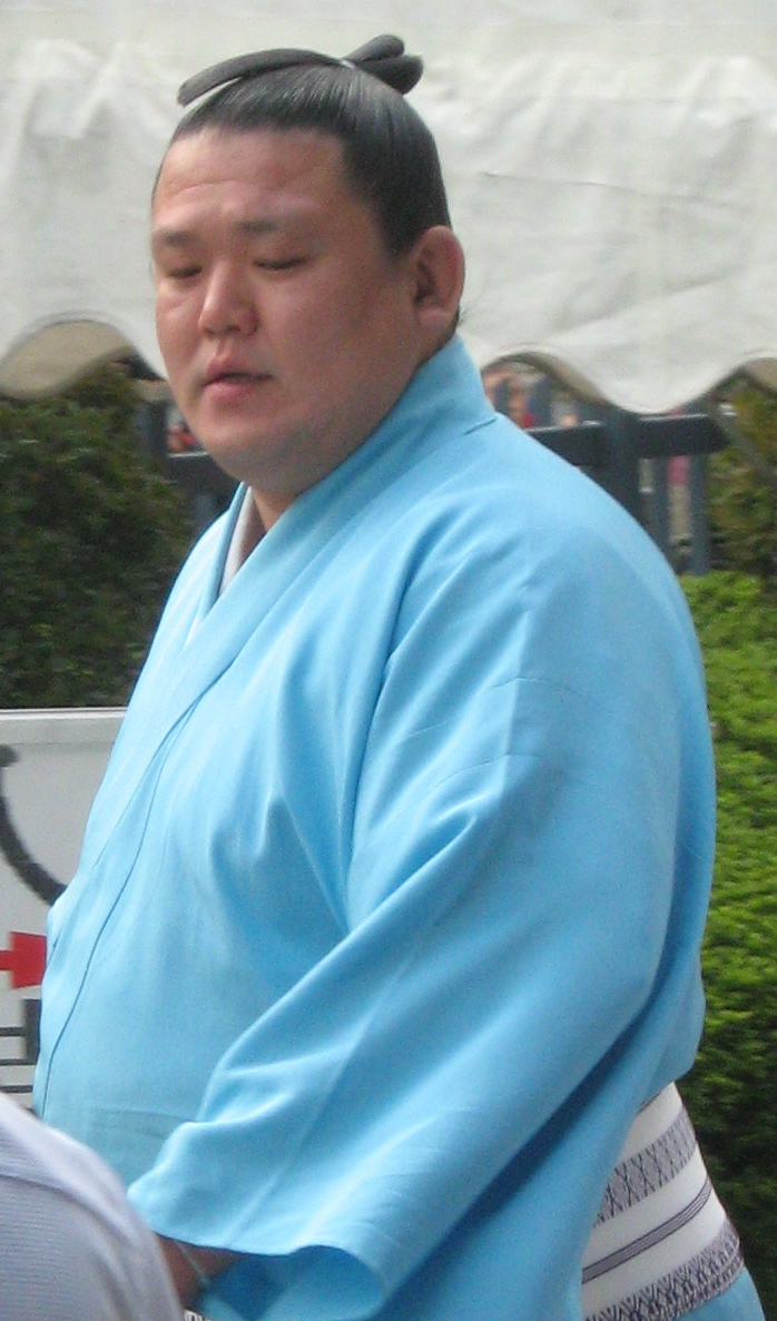 taken at 2008 Sep tournament